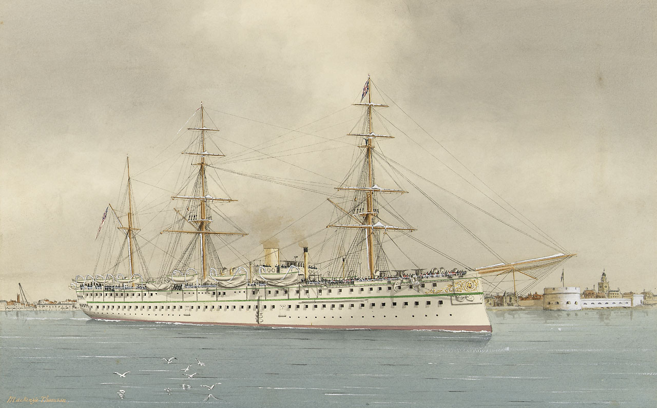 UK troop ship HMS Serapis